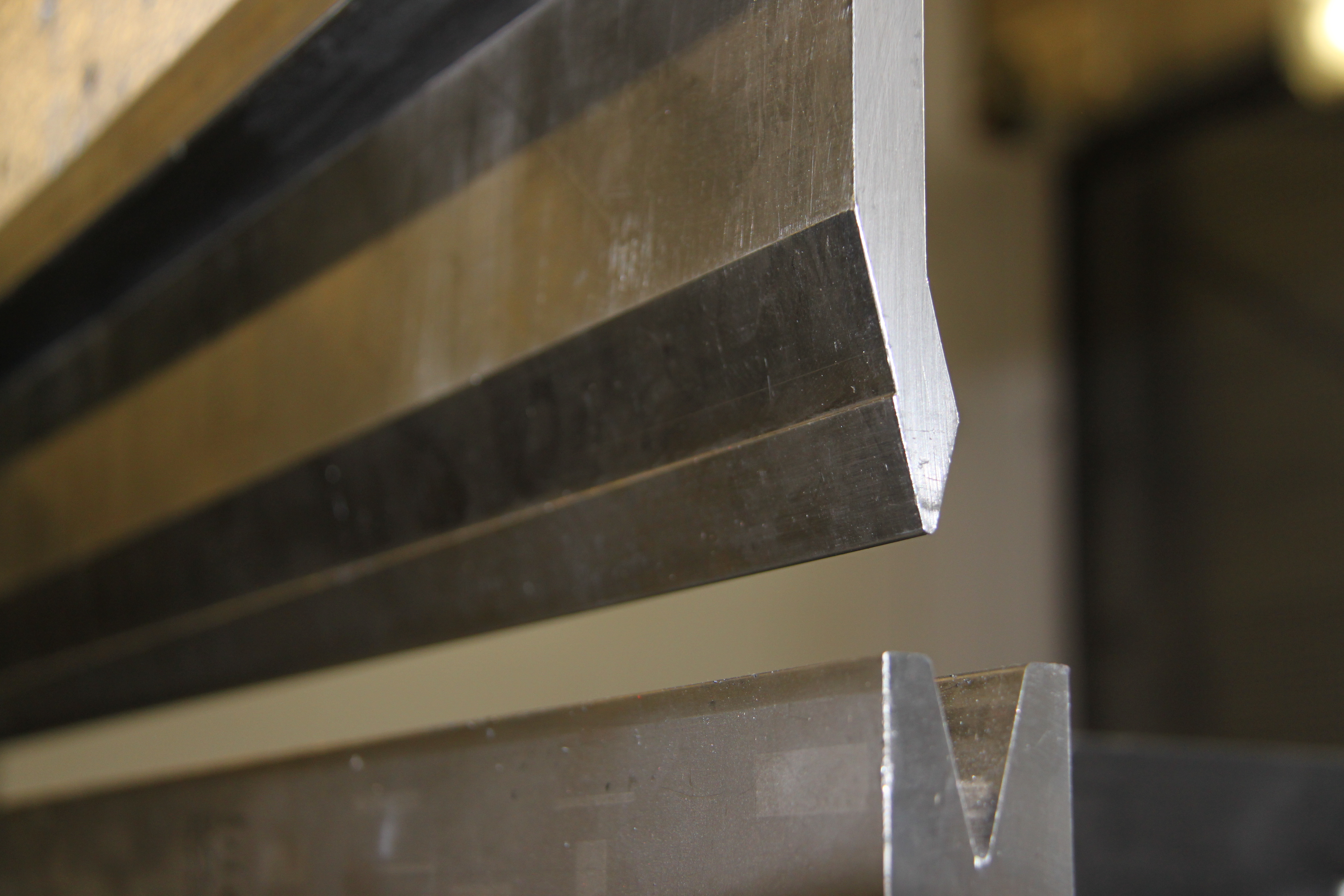 press brake tools